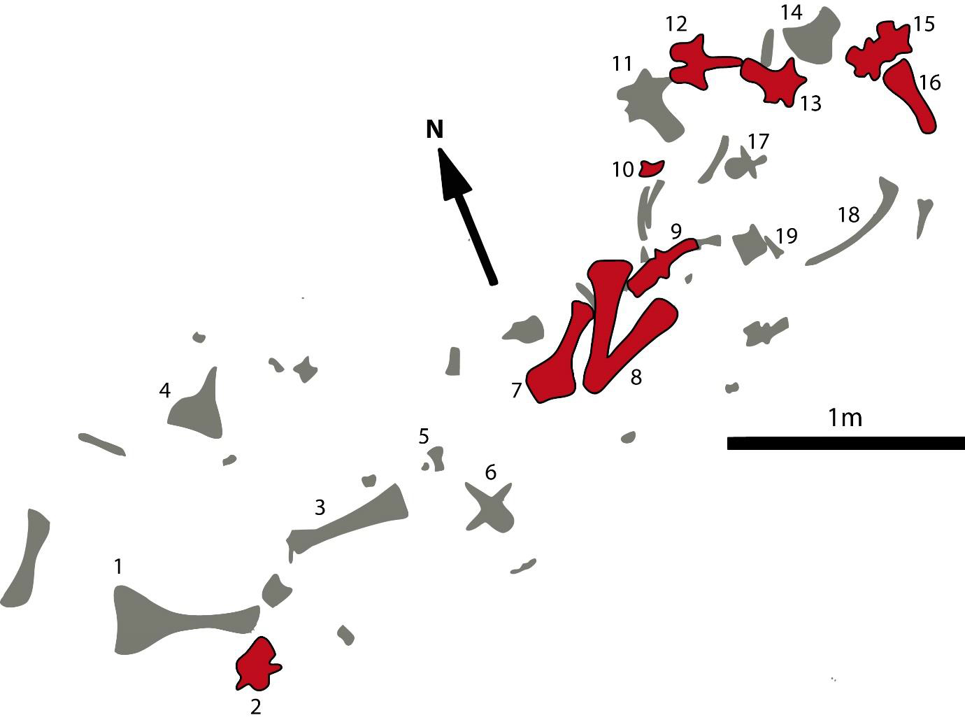 Numbers: 1, ischium (BP/1/6202); 2, anterior-to-middle cervical vertebra (BP/1/6199); 3, fibula (shattered upon extraction); 4, proximal ischium (BP/1/6184); 5, metacarpal IV (BP/1/6191); 6, mid-anterior caudal vertebra (BP/1/6201); 7, ischium (BP/1/7366); 8, paired tibiae (BP/1/6200 and BP/1/6980); 9, anterior caudal vertebra (BP/1/6646); 10, pedal ungual I (BP/1/6186); 11, posterior dorsal neural arch (BP/1/6183a); 12, anterior middle dorsal neural arch (BP/1/6183); 13, middle dorsal neural arch (BP/1/6770); 14, badly weathered ischial peduncle of ilium; 15, anterior dorsal neural arches (BP/1/6882 and BP/1/6984); 16, ulna (BP/1/6210); 17, mid-to-distal caudal vertebra (BP/1/7741); 18, dorsal rib (BP/1/6768); 19, chevron (BP/1/6205). Clavicle was recovered from plastered block in the vicinity of 9-12. Teeth were found close to the tibiae-ischium cluster. Red represents bones figured in Figure 3 of main article. Unnumbered elements were either indeterminate or unable to be located at the time of study. Quarry map by AMY, drawn in Inkscape (vers. 0.91).